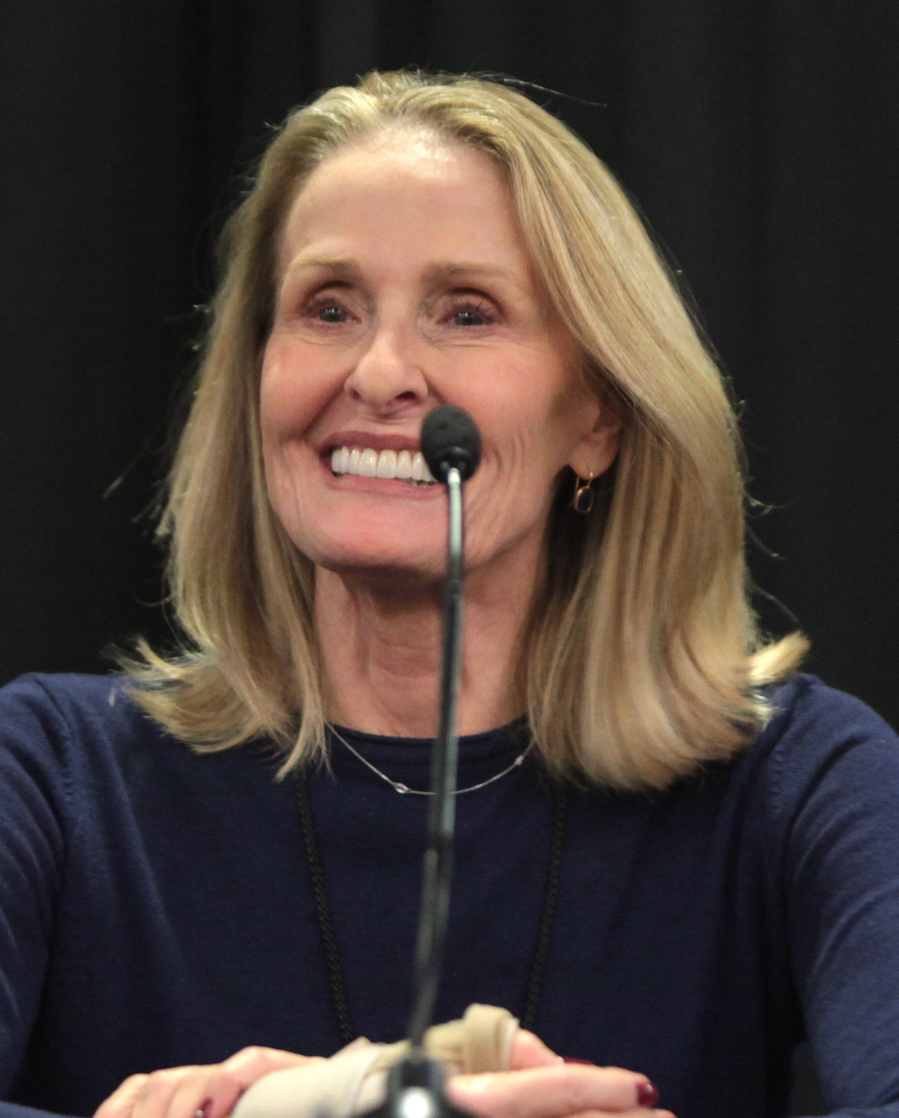 Melendy Britt at the 2015 Phoenix Comicon Fan Fest in Glendale, Arizona.